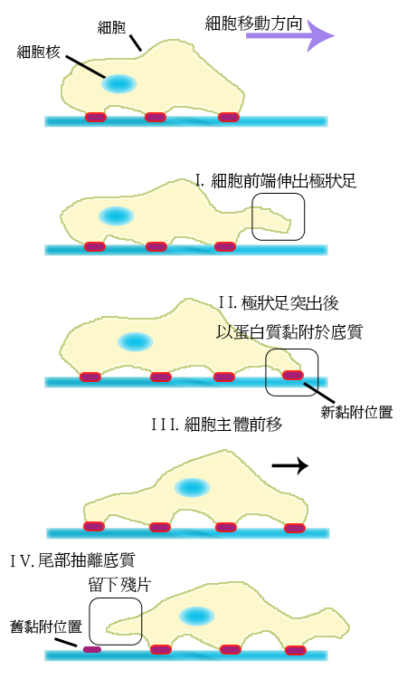 Cell_migration. Five stages in cell migration process: 0. The process begin. 1. Extension. 2. Adhesion. 3. Translocation. 4. De-Adhesion.